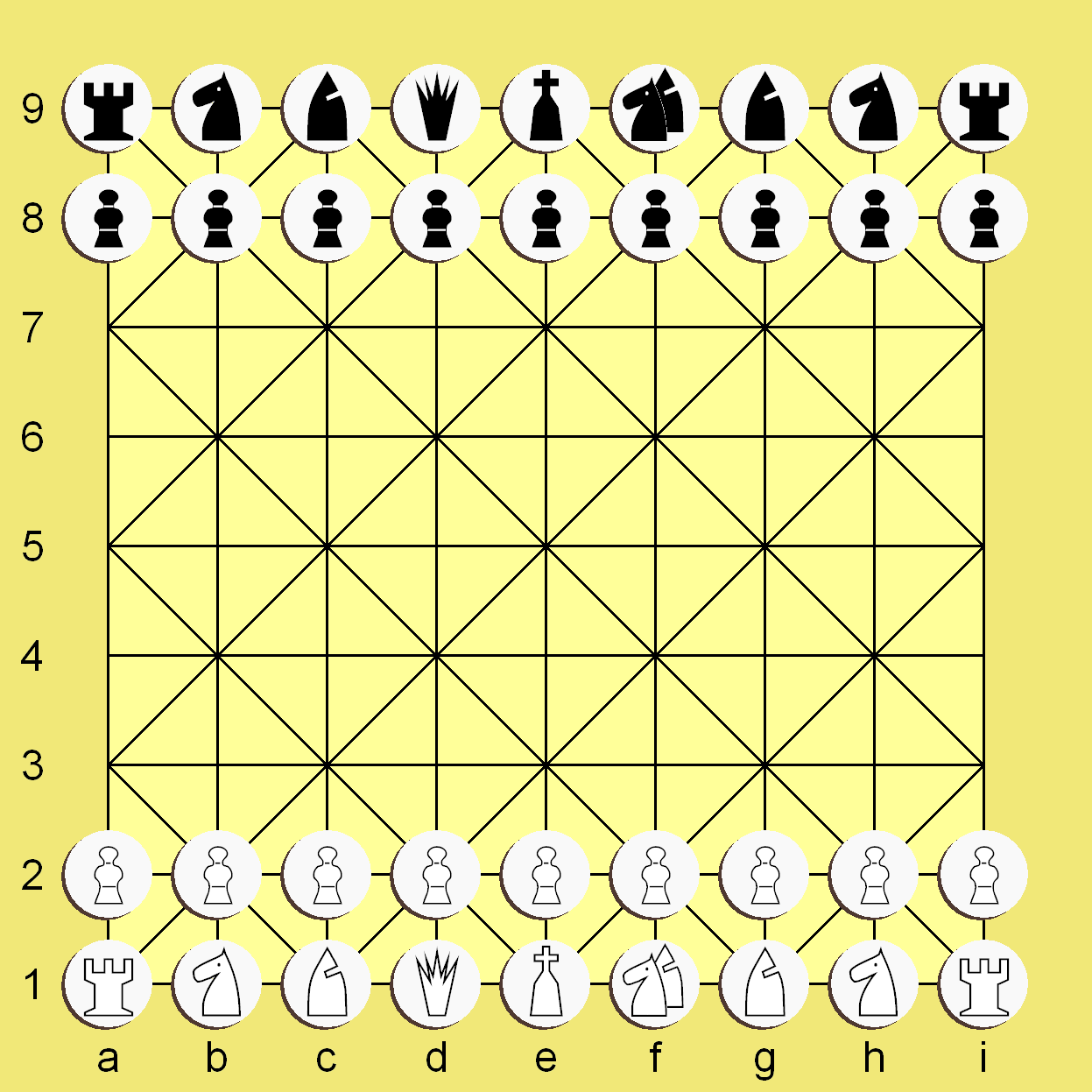 Using the icons of Chess Utrecht font (Hans Bodlaender); all done in MS PAINT.